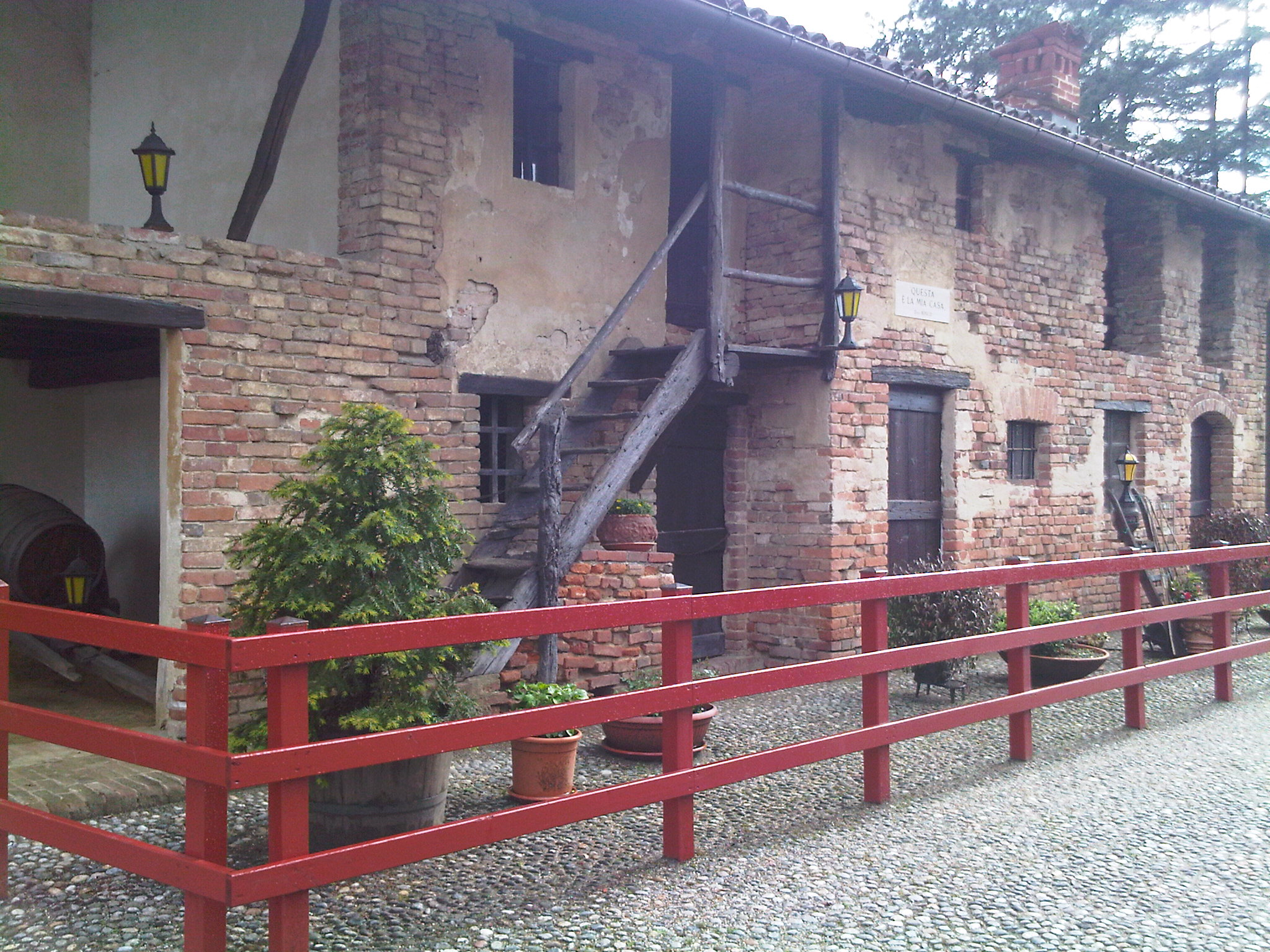 Birthplace of Don Bosco (Becchi, near Castelnuovo d'asti)